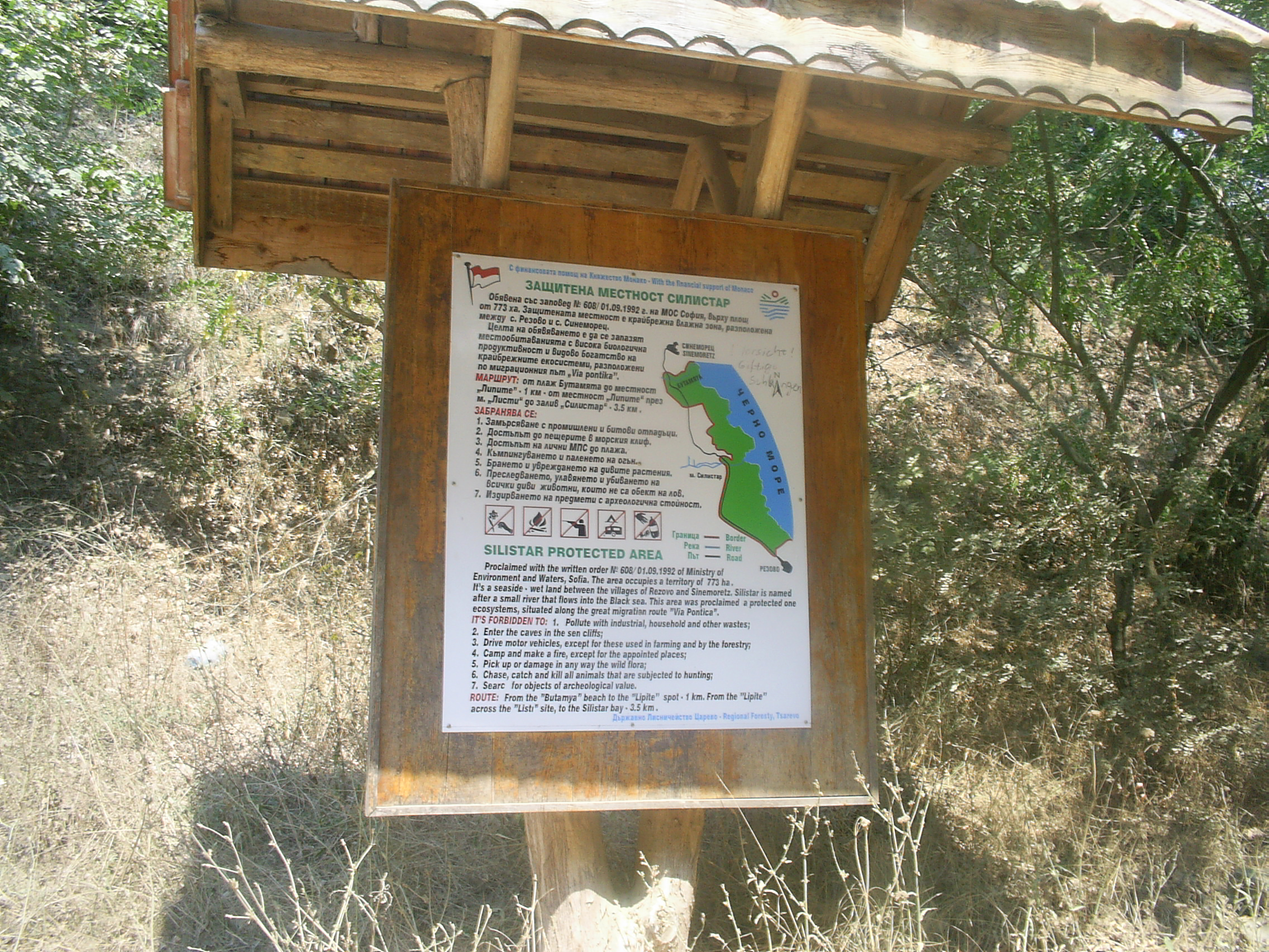 Information board of the Silistar protected area. Bulgaria